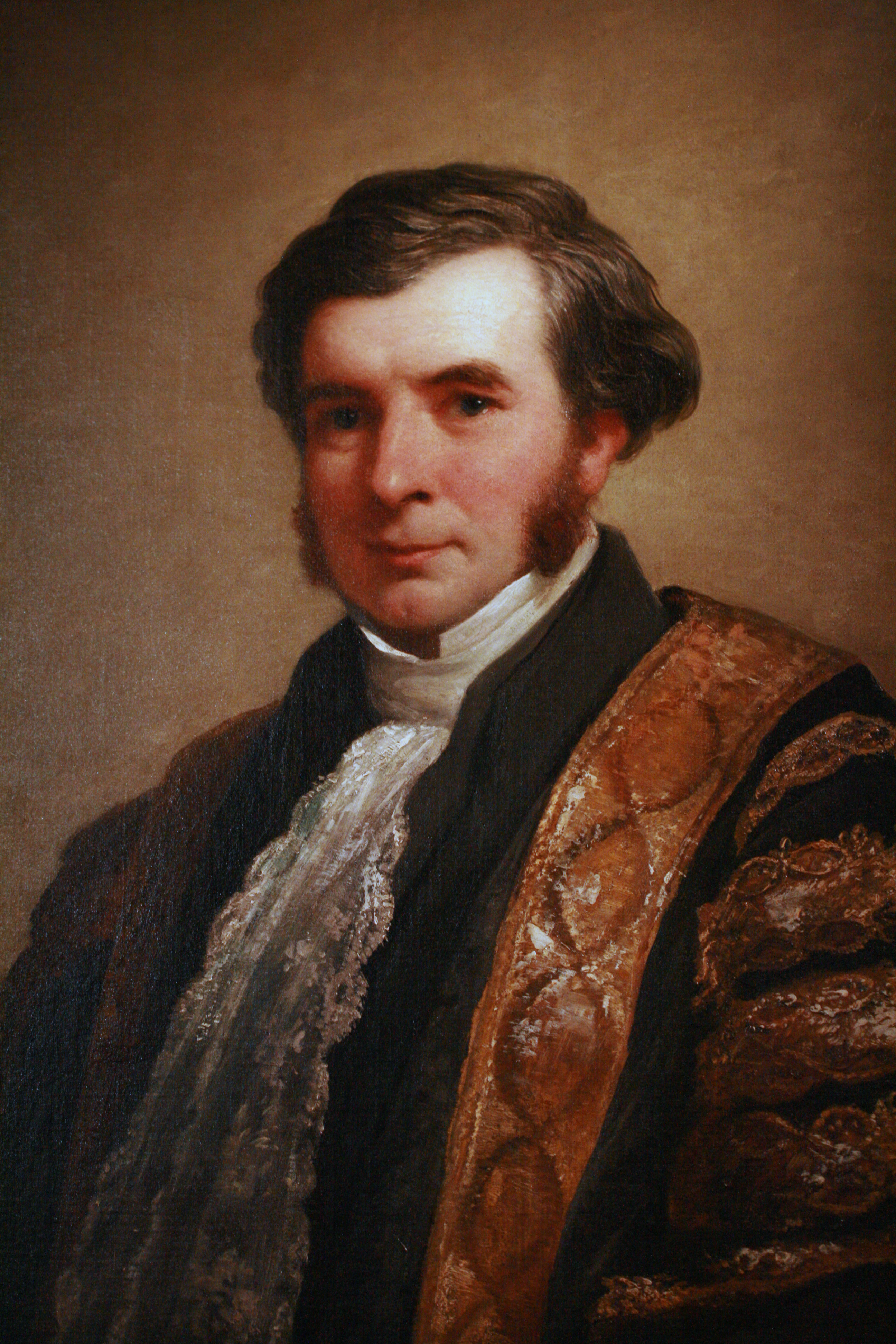 Sir Charles Nicholson as Chancellor of the University of Sydney, c. 1850. Painting in the Nicholson Museum.